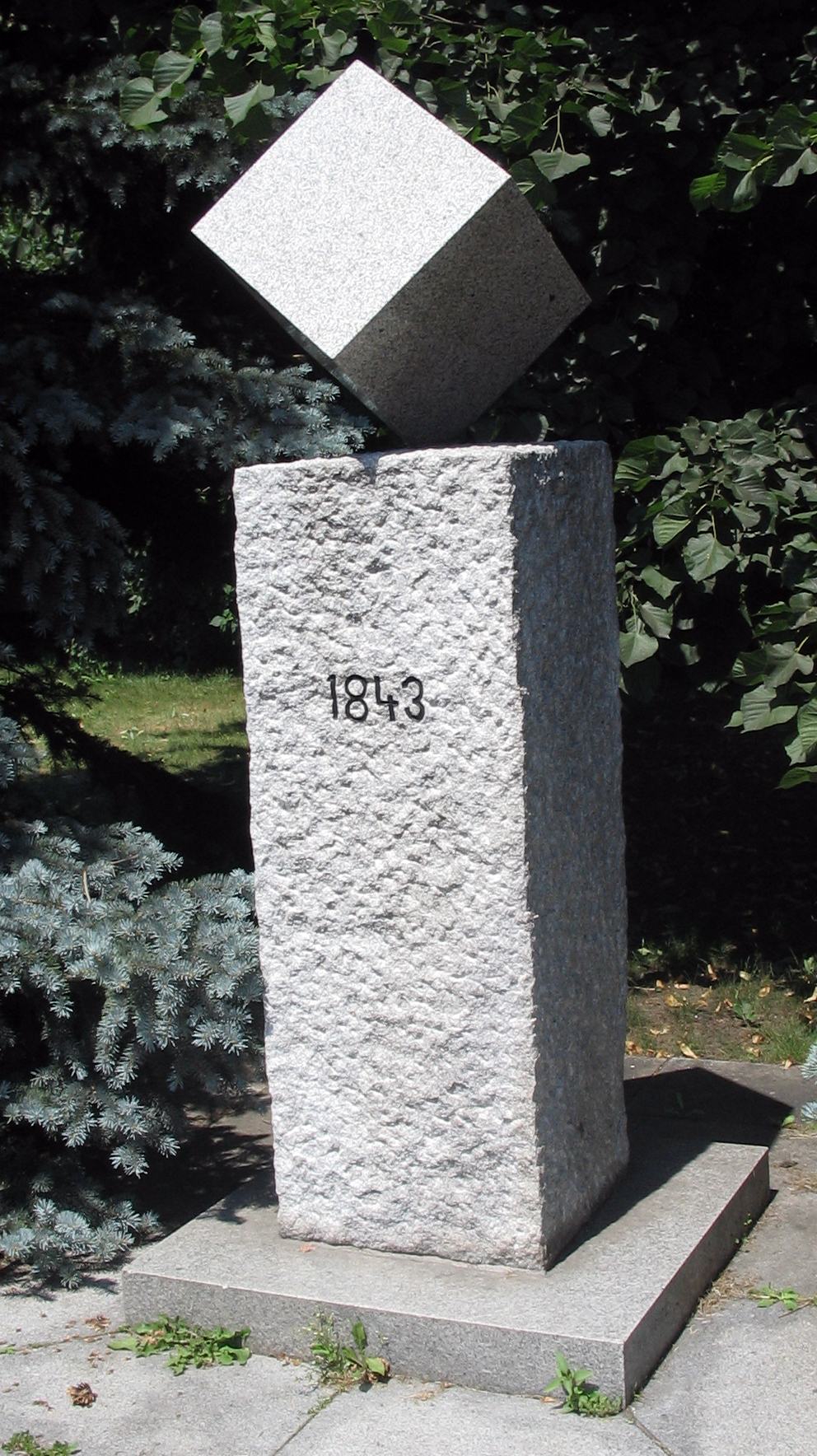 Sugar cube statue in Dačice (Czech Republic)